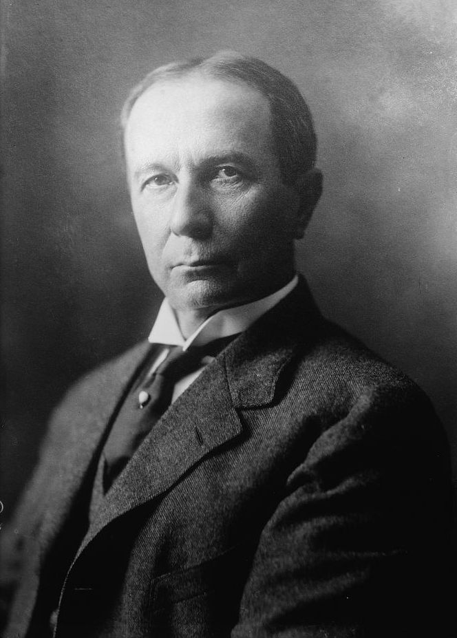 Robert Scott Lovett in 1920